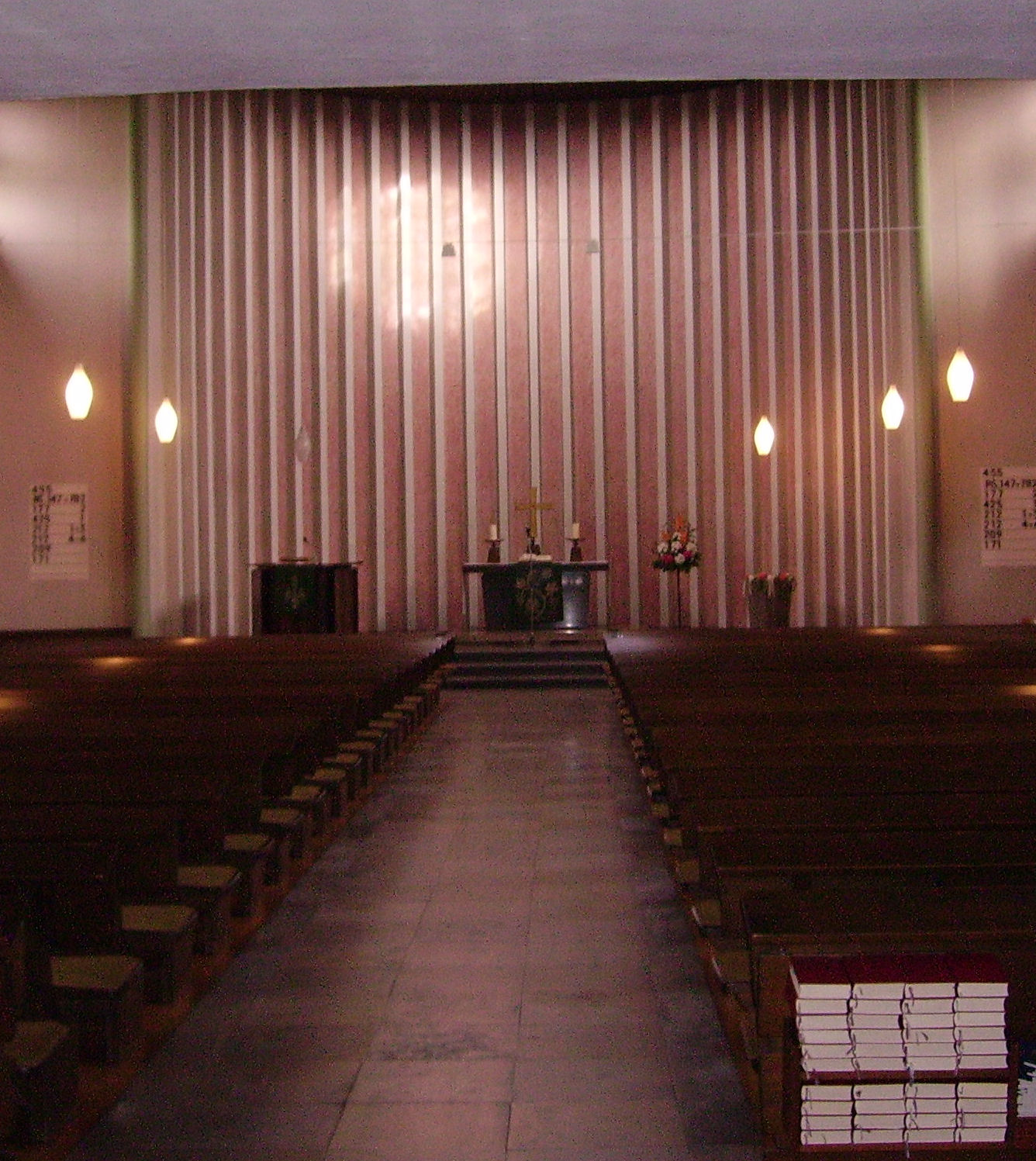 view of Limburgerhof, Germany